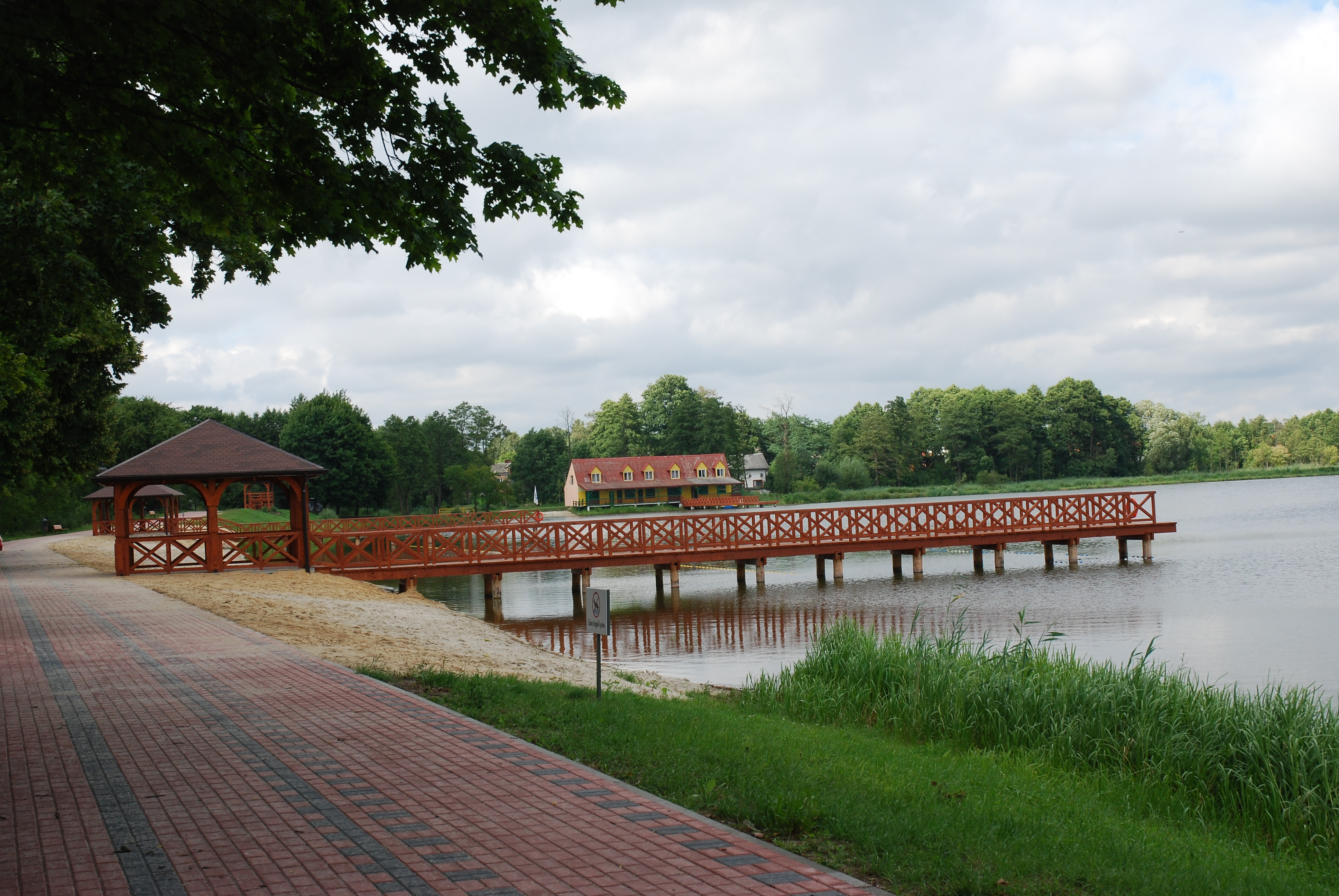 Pond in Zaklików